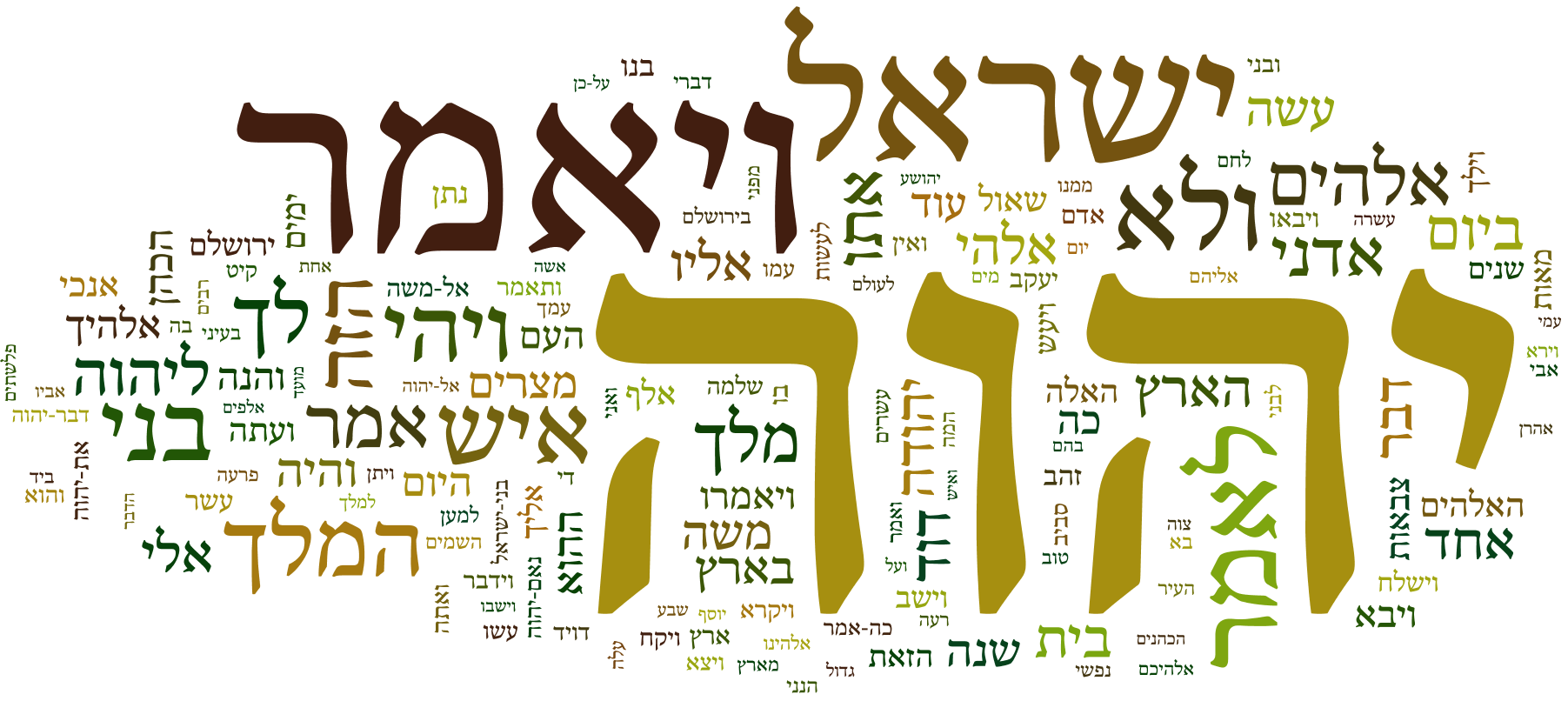 A Wordle of the distribution of words in the Hebrew Bible